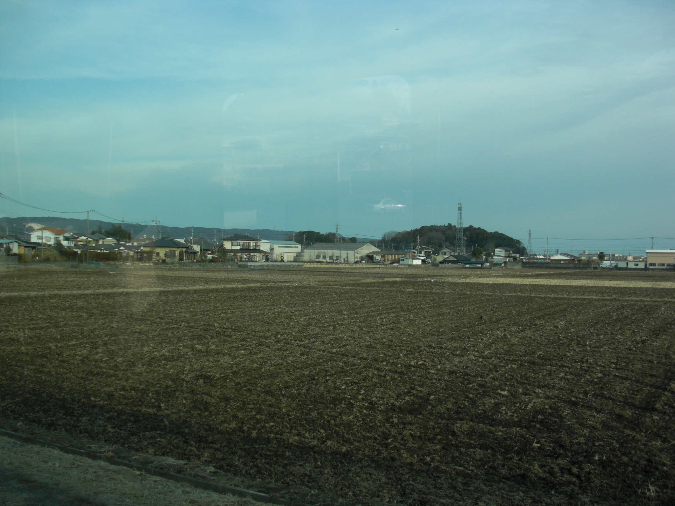 This is a landscape of Isobecho, Hitachiota, Ibaraki, Japan.